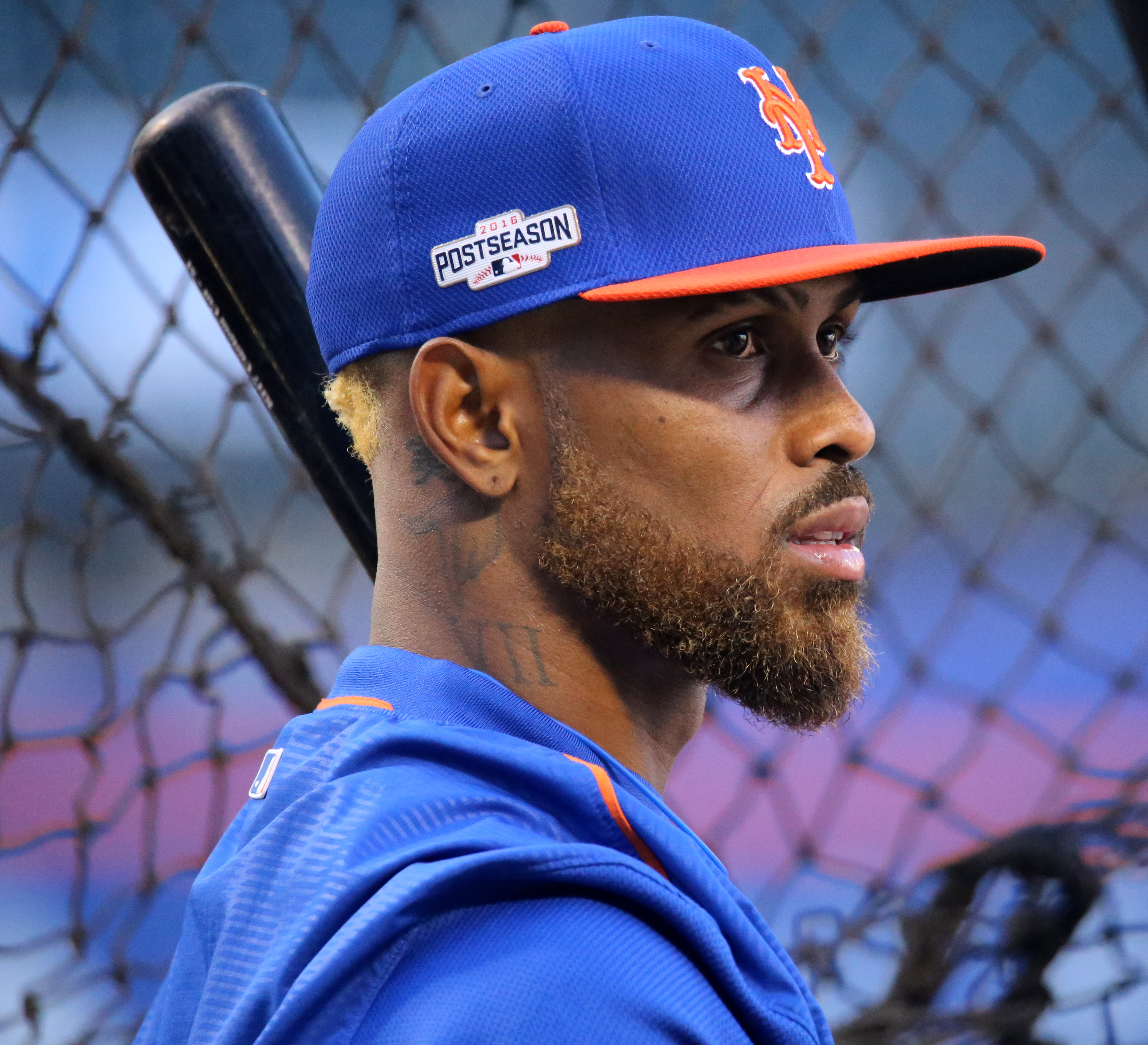 Jose Reyes looks on during batting practice before the NL Wild Card Game.